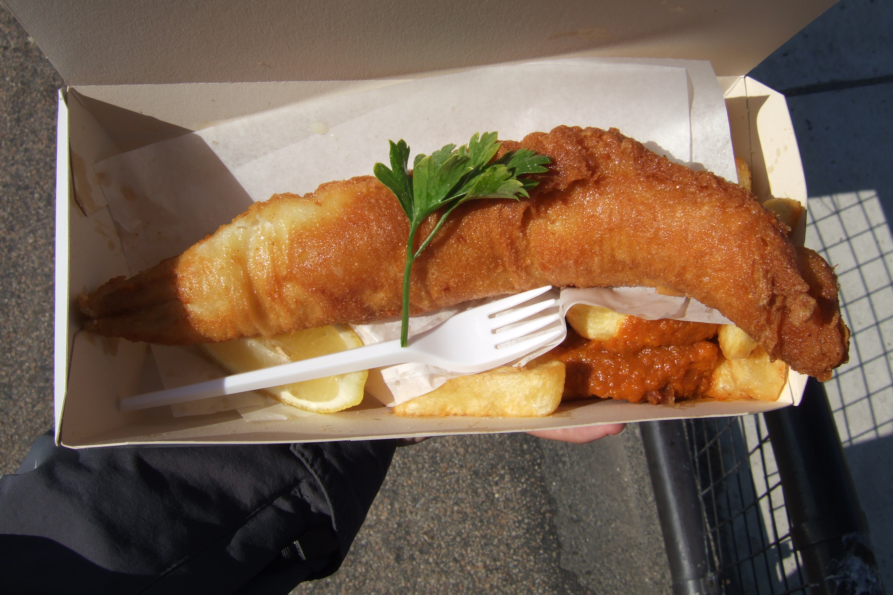 Hake and chips While in Padstow we thought why not try out the Rick Stein restaurant. It was closed when we got there so we had take-away instead, nothing like traditional fish and chips on the harbourside! This particular dish was hake and chips for a quite reasonable £5.75